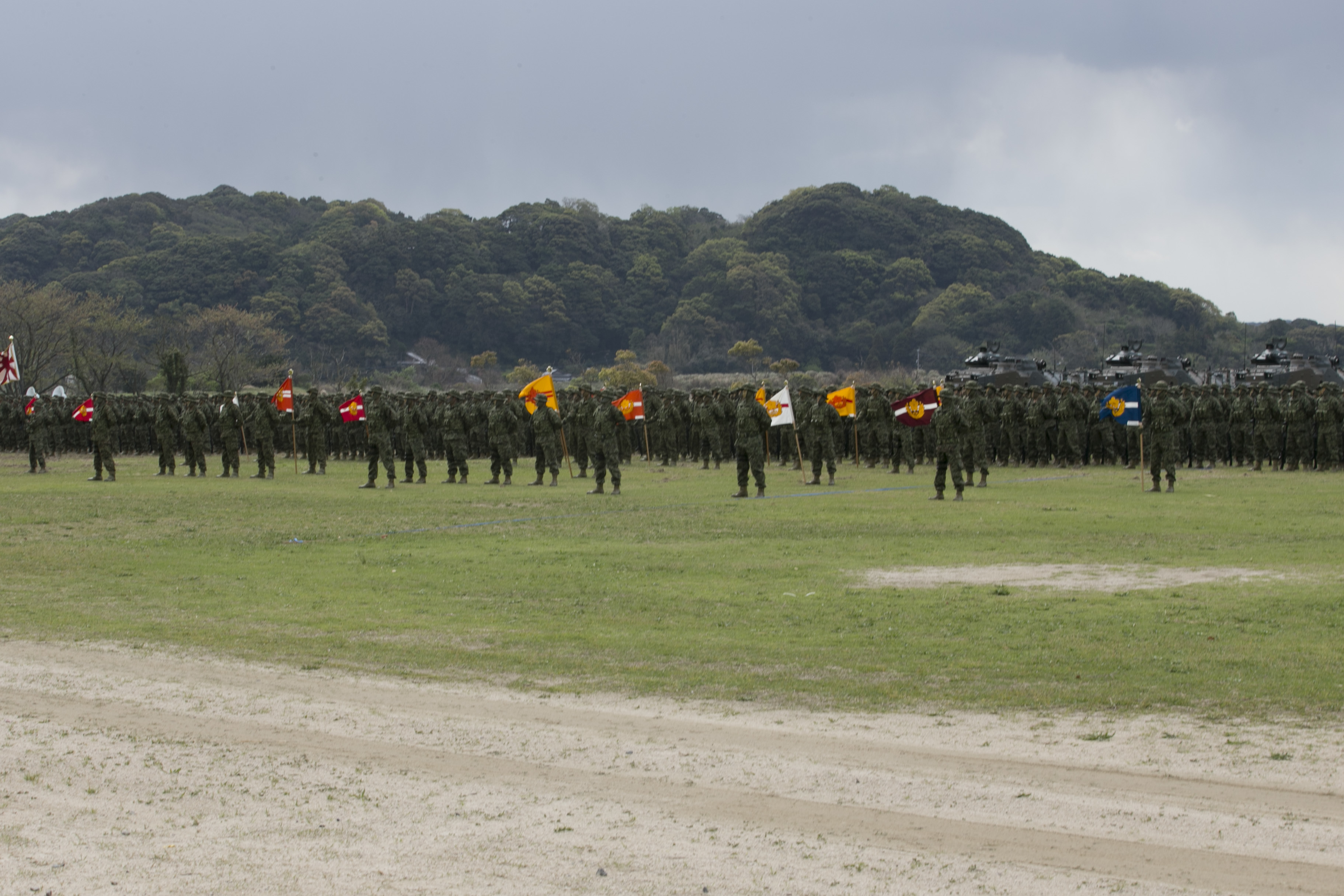 Service members with the Japan Ground Self-Defense Force stand in formation during the Japanese Amphibious Rapid Deployment Brigade’s unit-activation ceremony at Camp Ainoura, Japan, April 7, 2018. The 31st Marine Expeditionary Unit supported the ceremony with a fast rope demonstration from a CH-53E Super Stallion. As the Marine Corps’ only continuously forward-deployed MEU, the 31st MEU provides a flexible force ready to perform a wide range of military operations throughout the Indo-Pacific region.